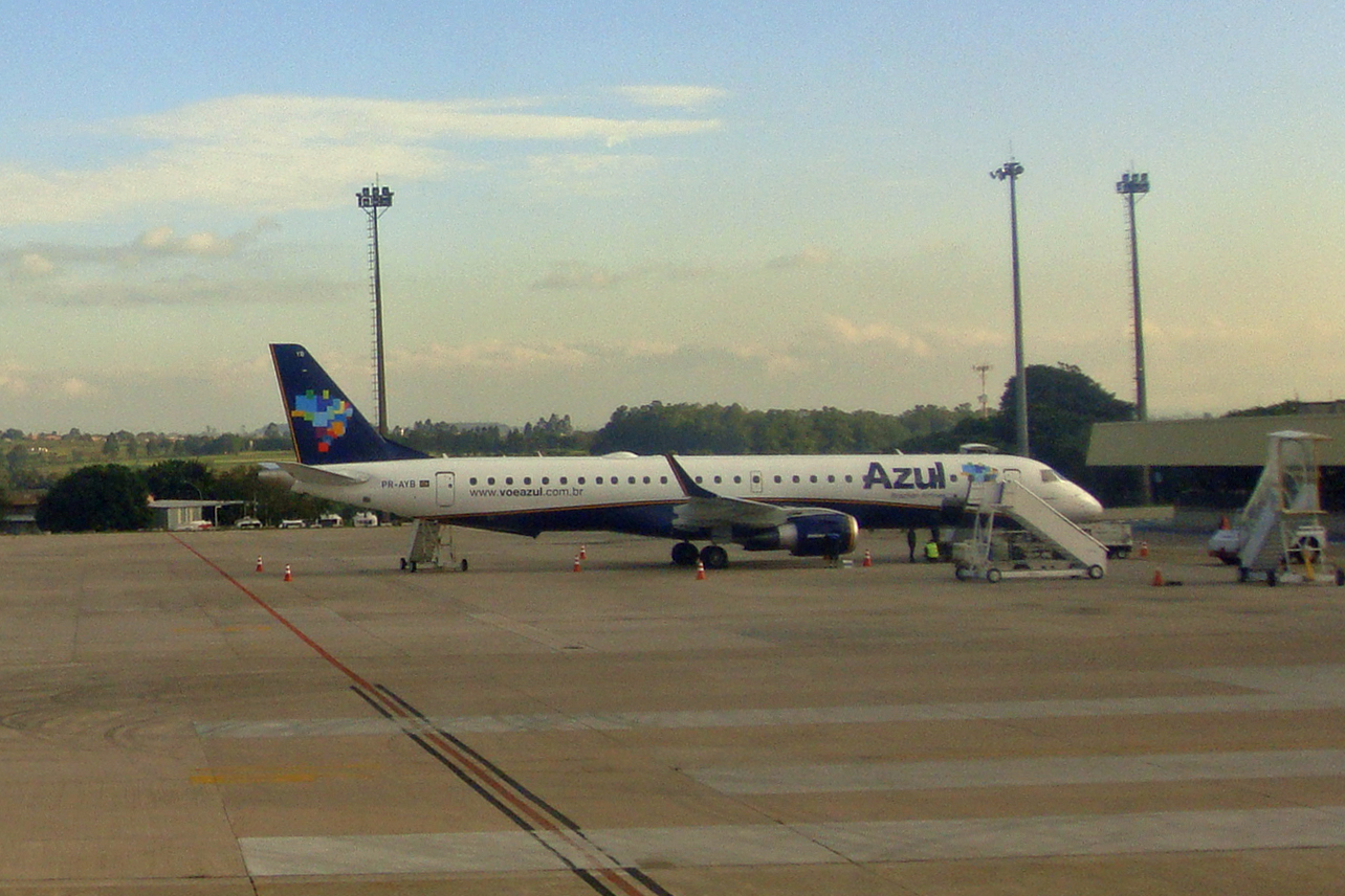 Azul's Embraer 190 at Campinas International Airport, Brazil